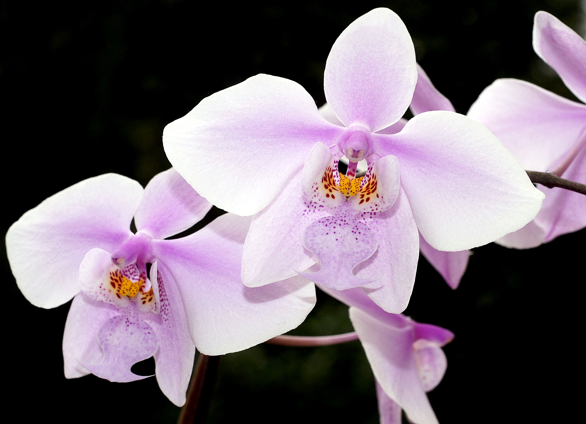 Phalaenopsis schilleriana